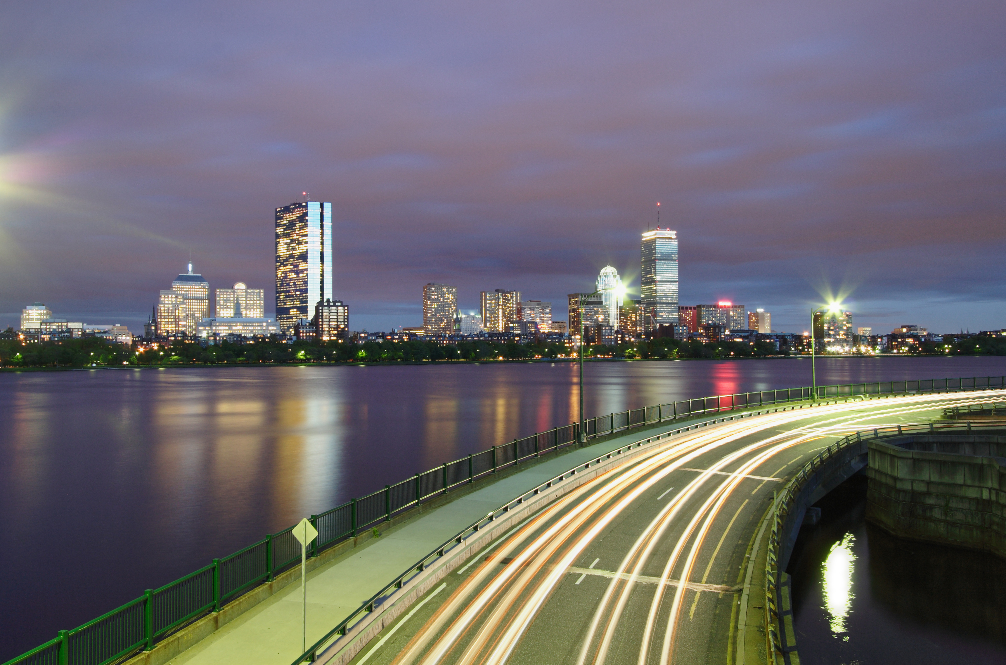 View of Boston's Back Bay skyline, at night across the Charles River from Memorial Drive in Cambridge, just south of the longfellow Bridge.